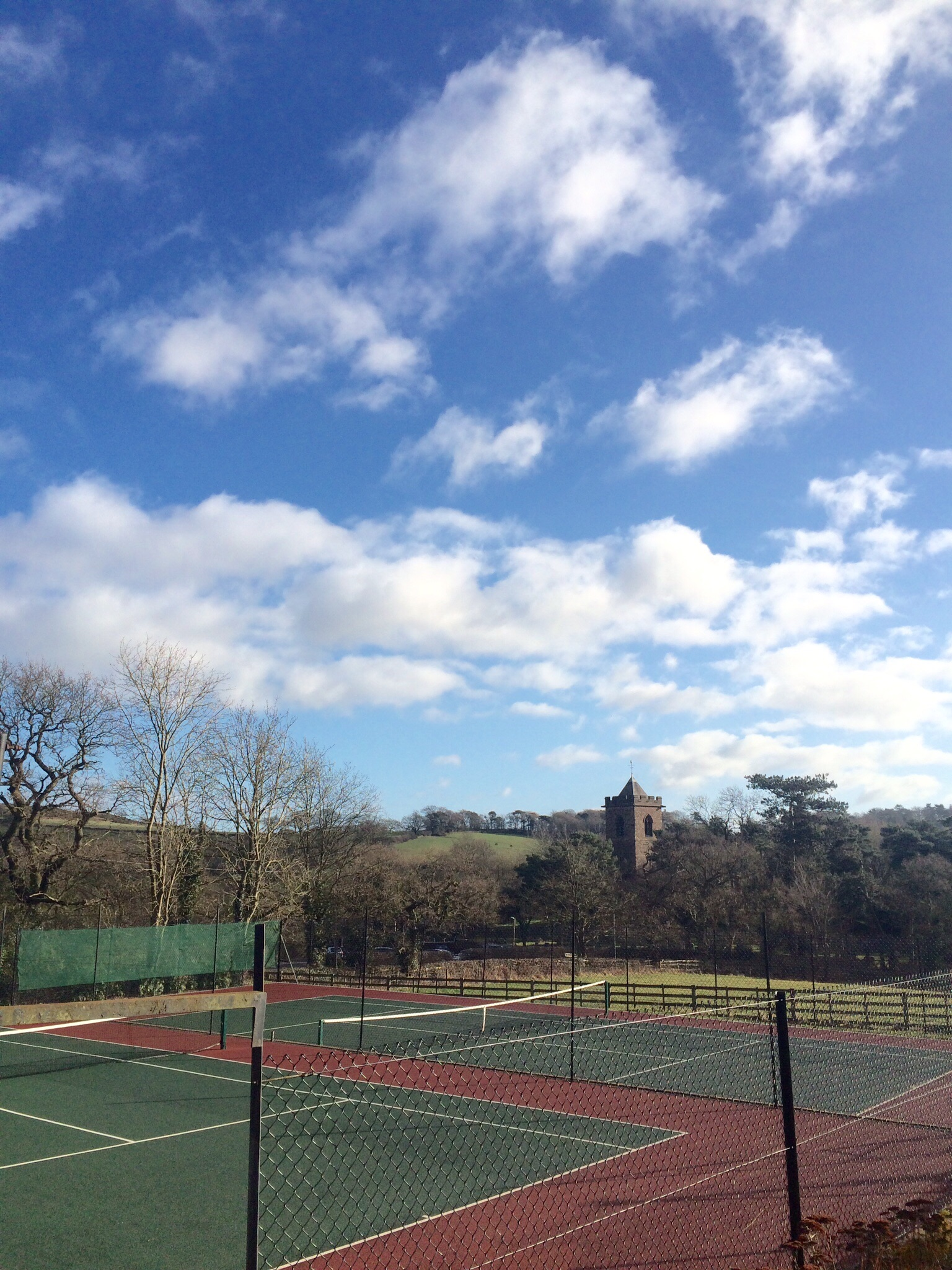 Oaks and District Tennis Club, located in Oaks In Charnwood, with the Church of St James the Greater in the background.